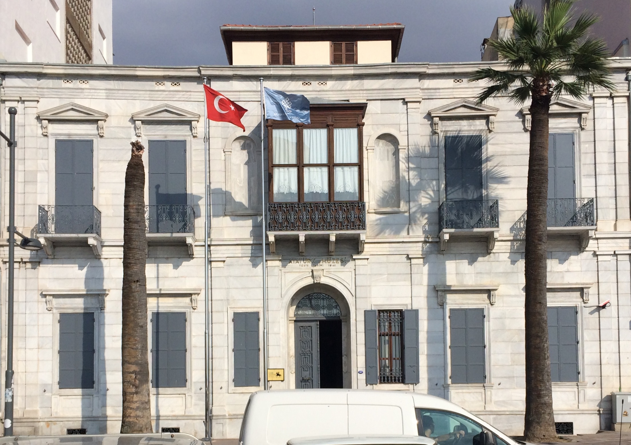 The front facade